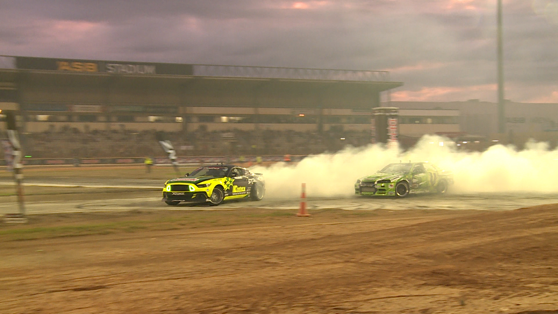 Drifting Cars: Fanga Dan battling Cole Armstrong 2018 D1NZ Tauranga event